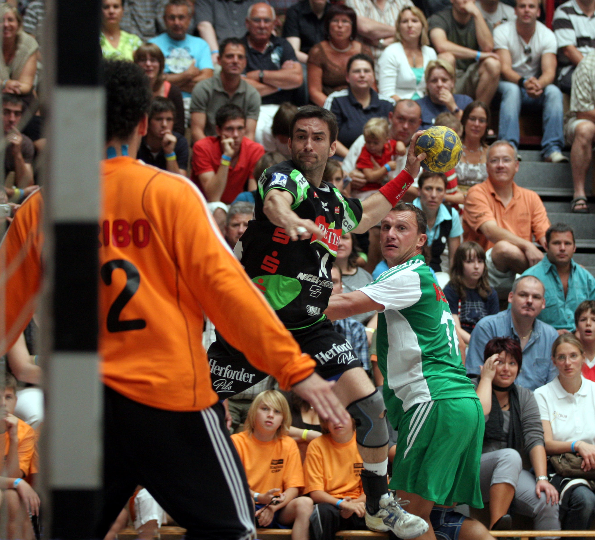 Mark Schmetz, handball player from TBV Lemgo, on August 30th, 2008 in Ehingen during a game for the Schlecker Cup 2008